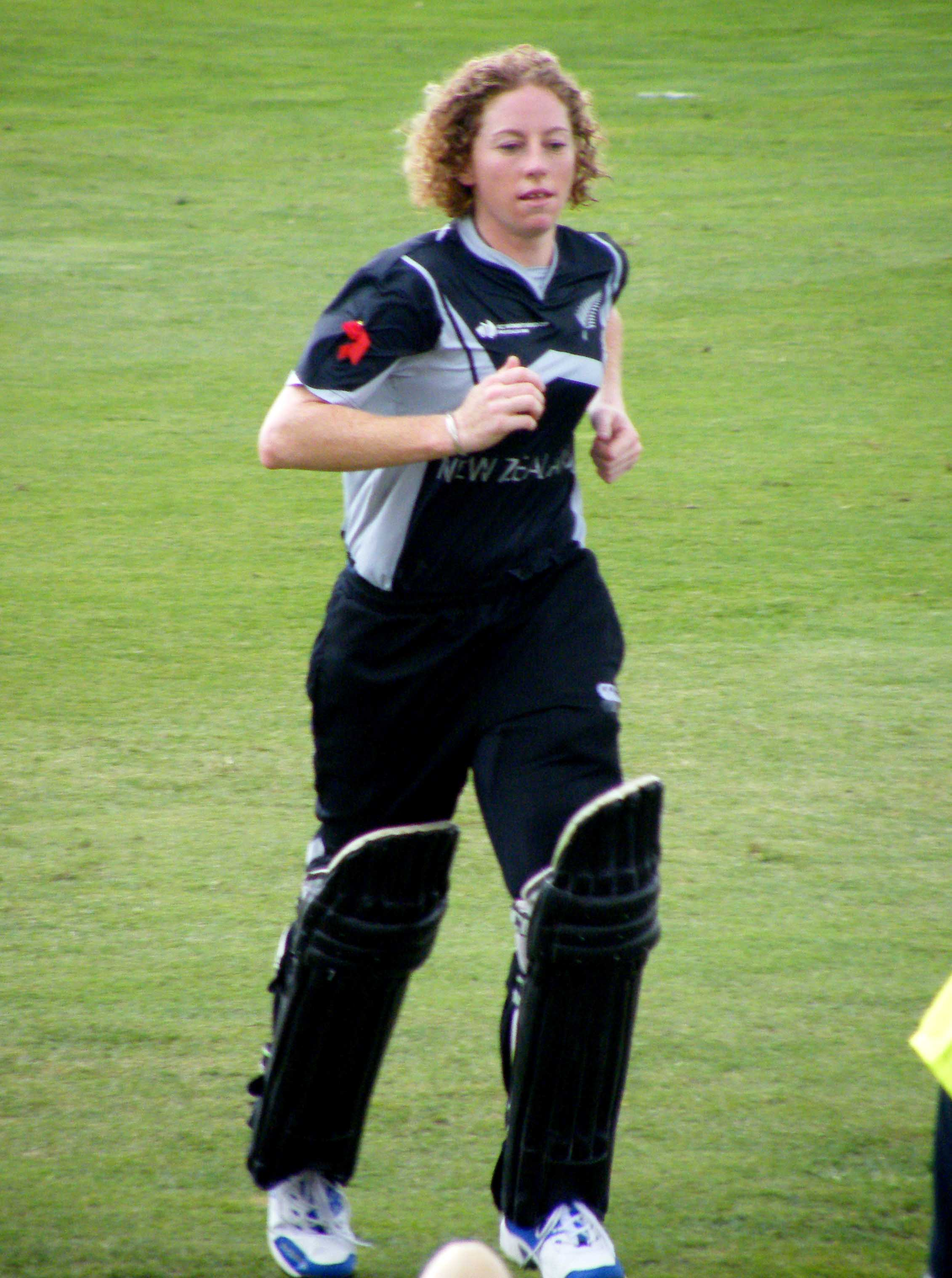 Heidi Tiffen of New Zealand. Womens Cricket World Cup - Sydney March 2009.